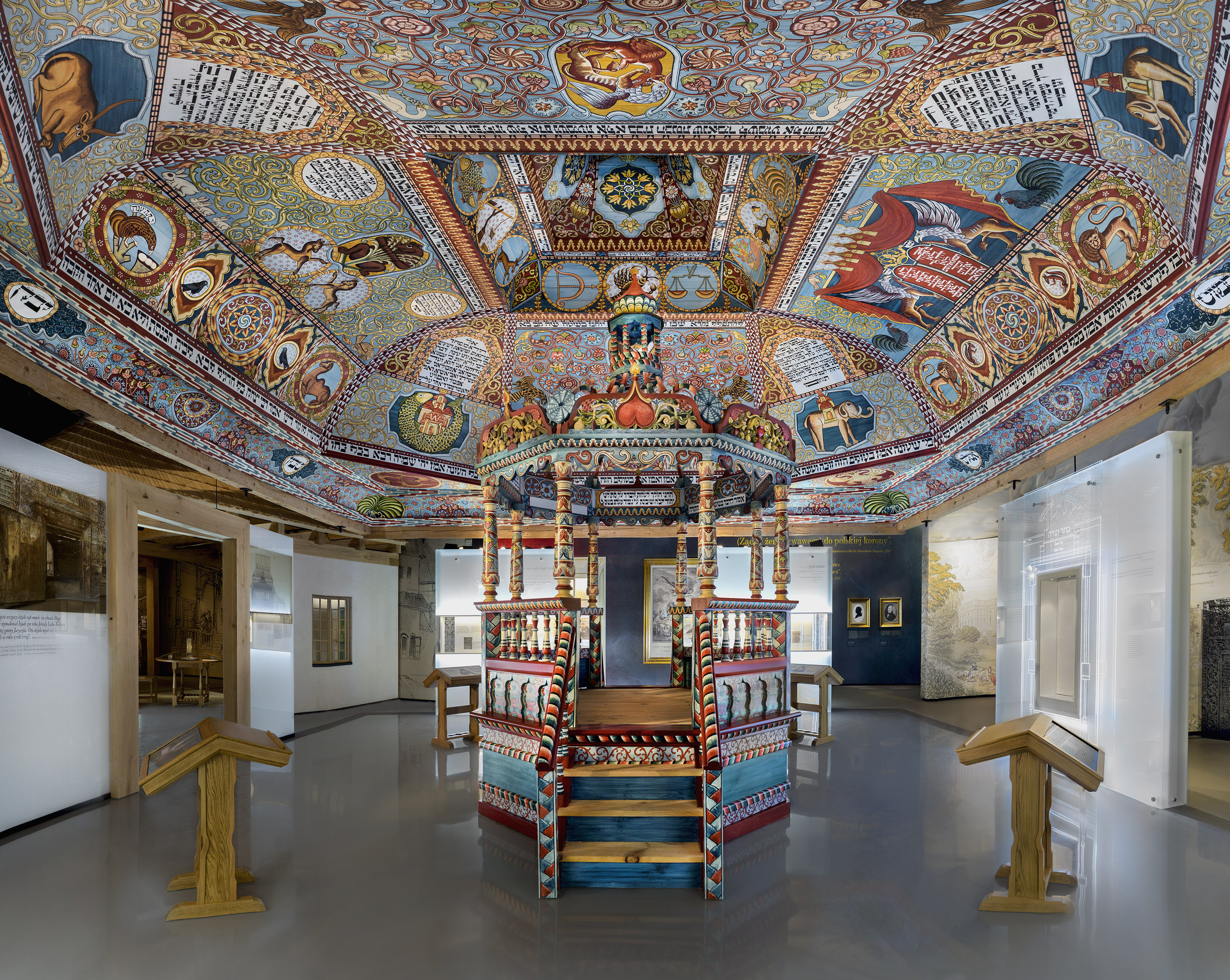 Main exhibition of the Museum of the History of Polish Jews in Warsaw. Reconstruction of the synagogue in Gwoździec